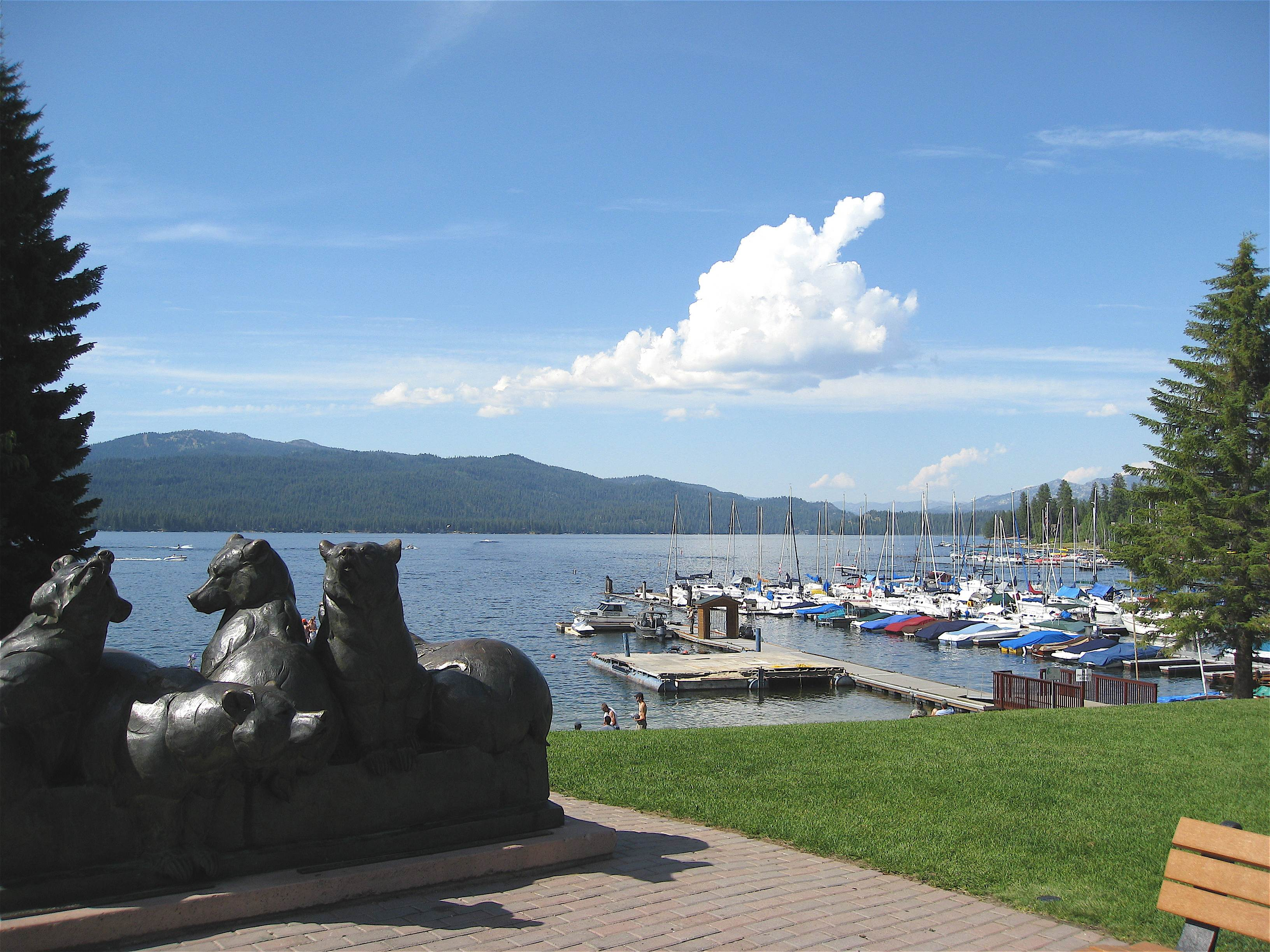 Photo taken from Art Roberts Park in downtown McCall, Idaho. The picture faces North, overlooking Payette Lake. Brundage ski mountain can be seen in the upper left hand corner. The picture was taken 7.11.07 at 4:50pm. This picture should be in the McCall, Idaho article, per the request of the discussion page.